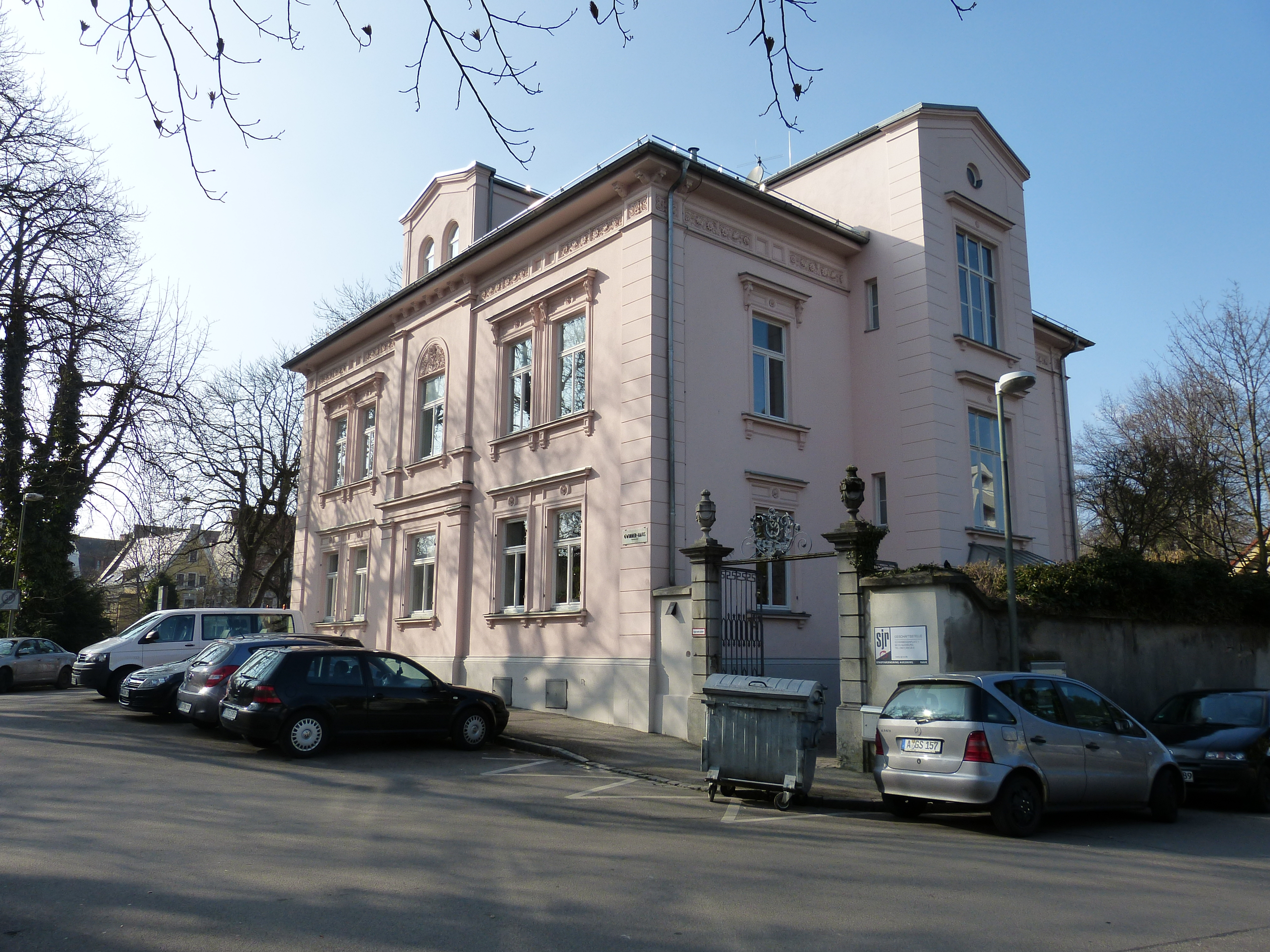 Augsburg, Schwibbogenplatz 1. This is a photograph of an architectural monument.